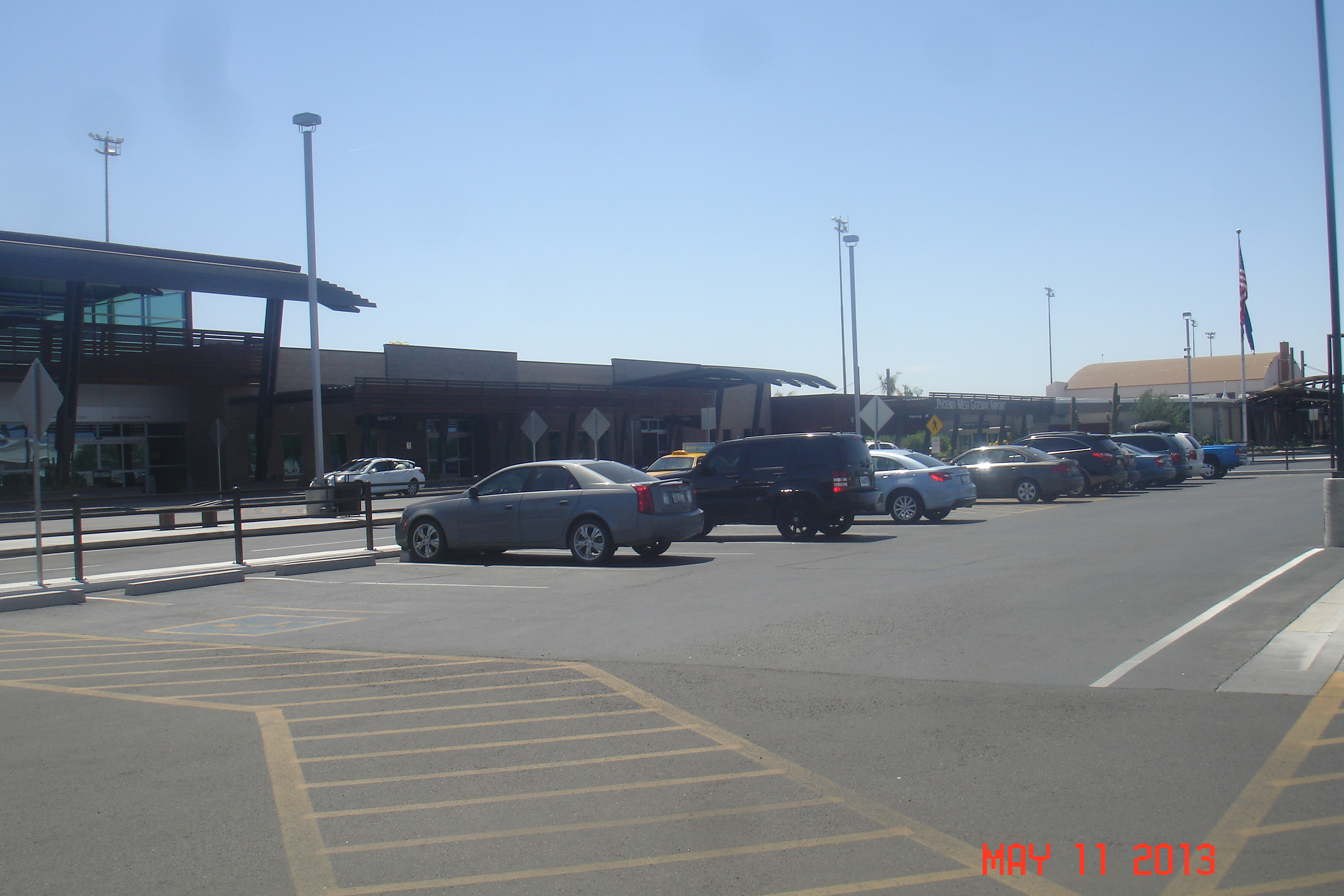 Phoenix-Mesa Gateway Airport